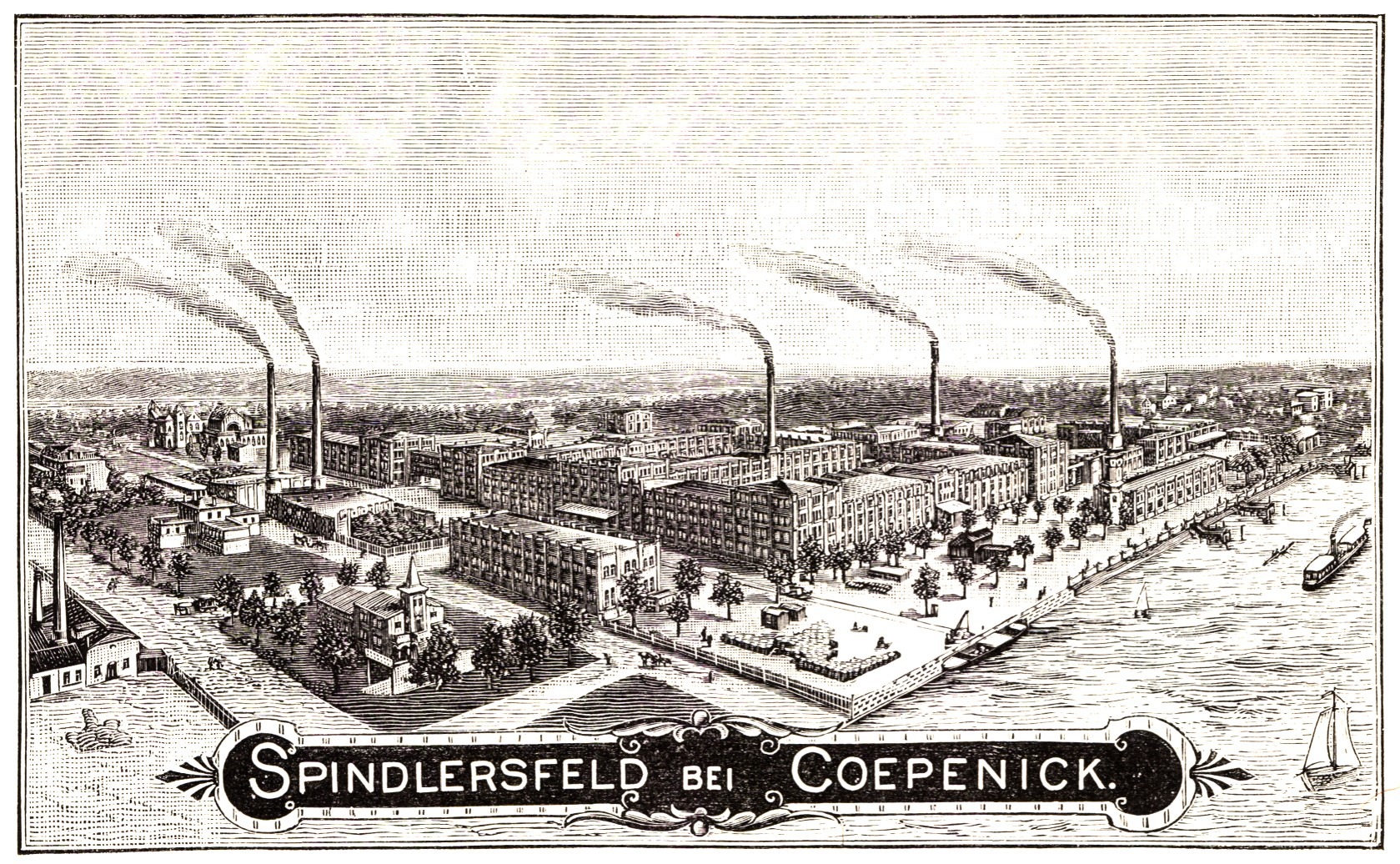 Berlin - Spindlers Fabrik 1896